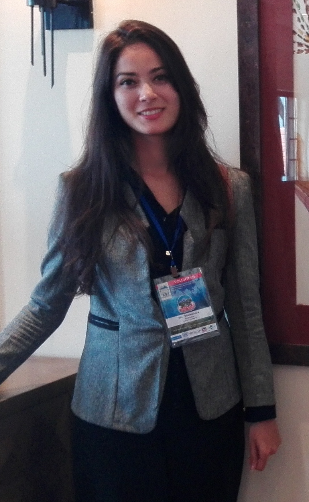 Photo is shot during the ETS conference in Hyatt hotel in Kathmandu.